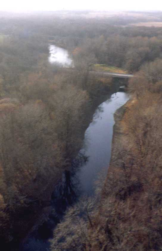 The La Moine River in McDonough County, Illinois. From site (File is